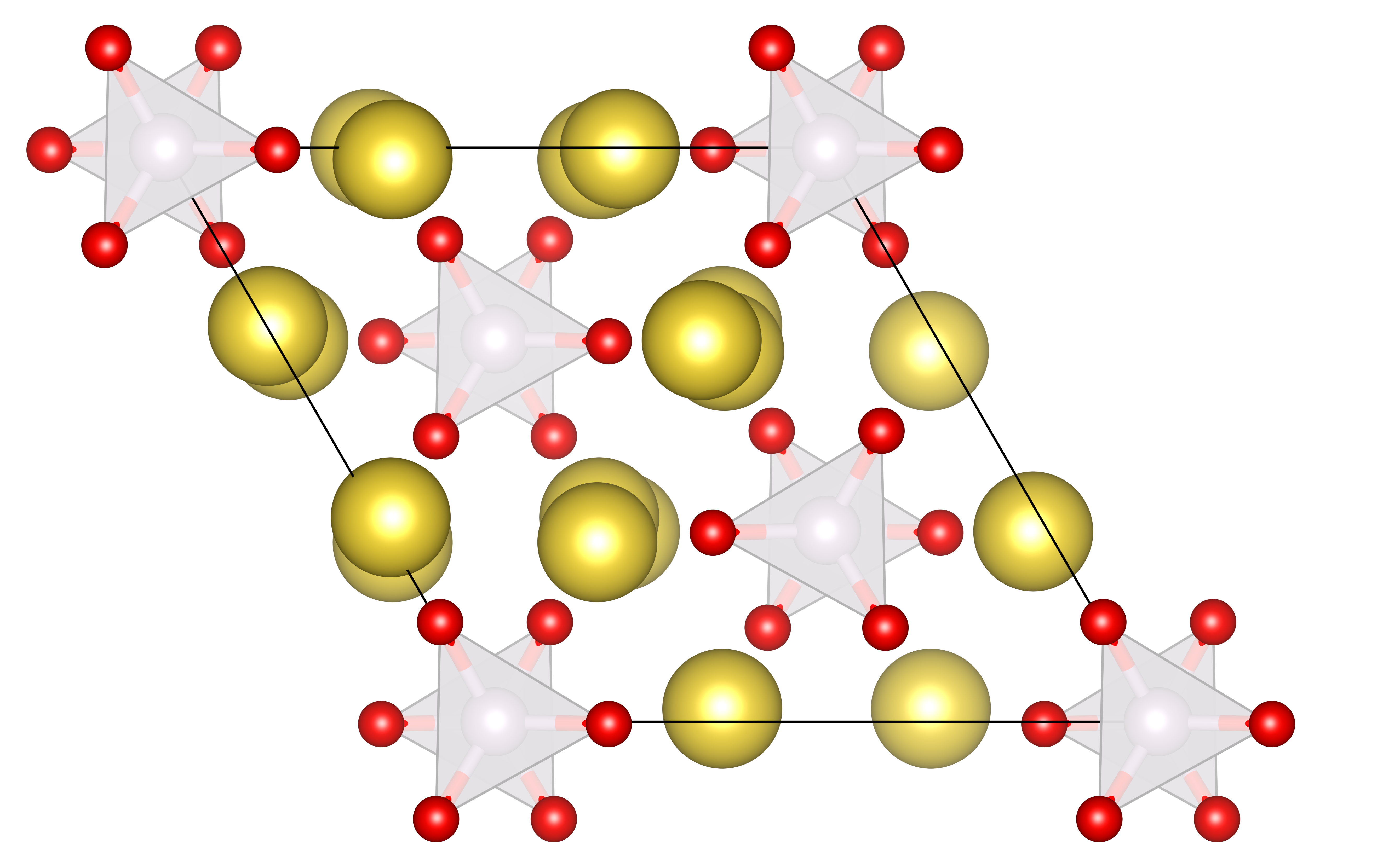 Unit cell of sodium monothiophosphate (Na3PO3S), portrayed along the c axis. Created with VESTA. Source of crystal structure: M. Pompetzki und M. Jansen (March 2002). "Natriummonothiophosphat(V): Kristallstruktur und Natriumionenleitfähigkei". Zeitschrift für allgemeine und anorganische Chemie 628 (3): 641–646. 10.1002/1521-3749(200203)628:3 3.0.CO;2-8.